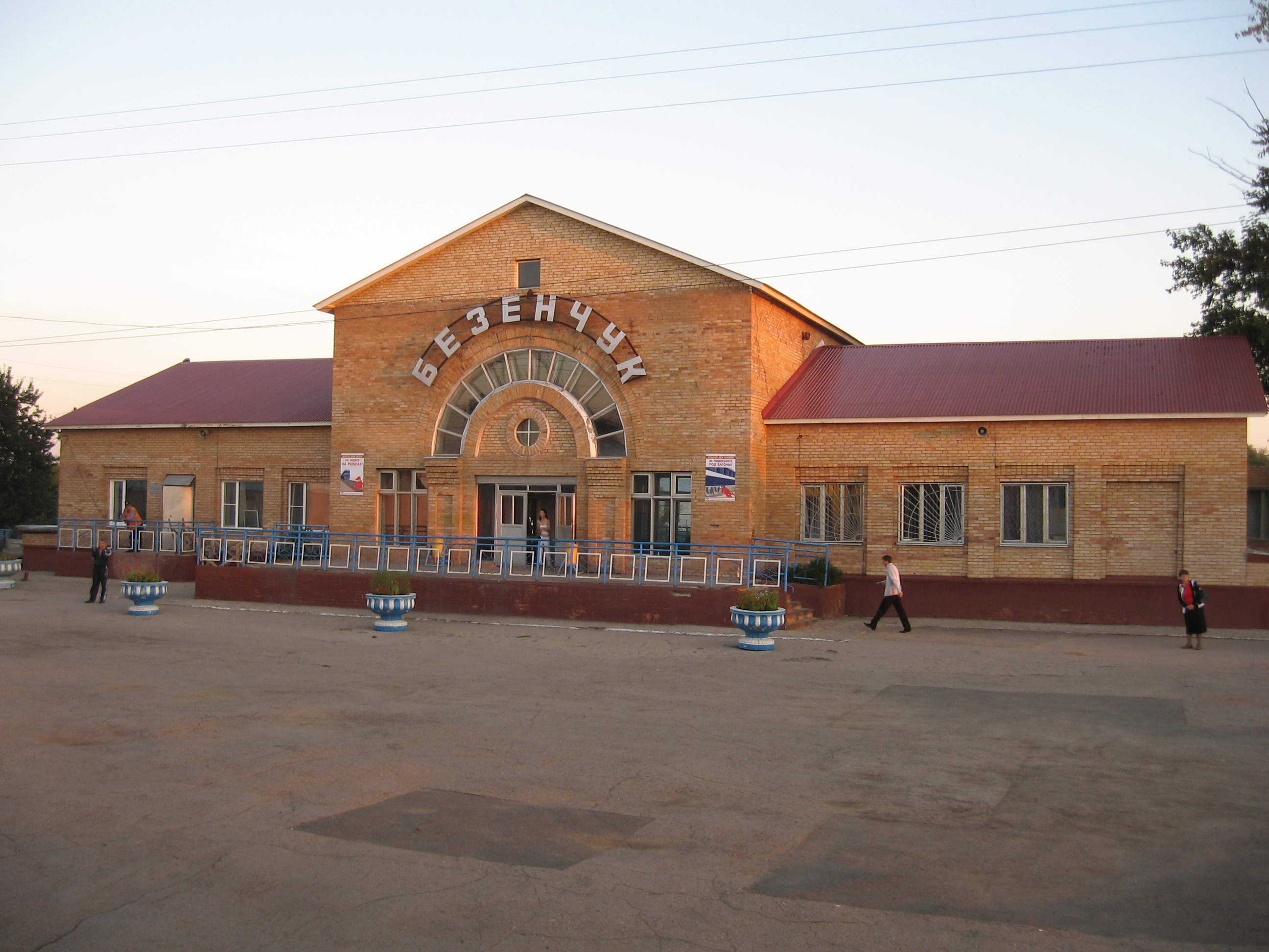 Railway junctions Bezenchuk. Kuibyshev railway